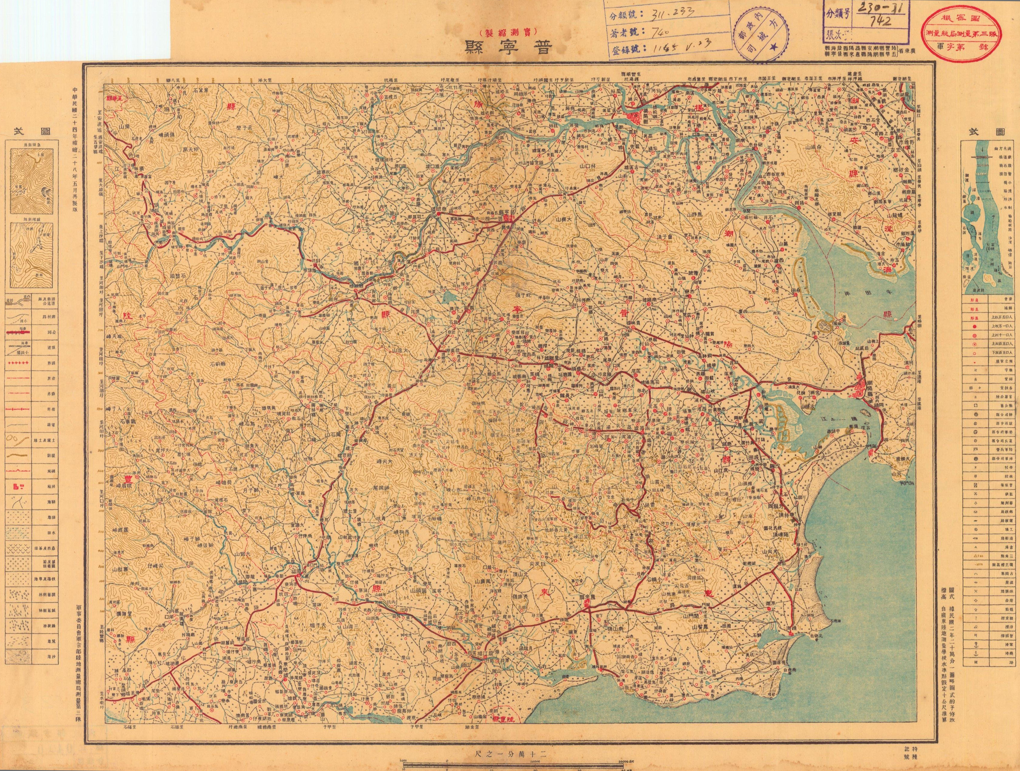 An old map of Puning at 1935